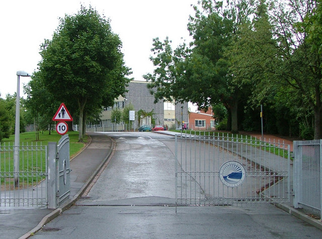 Eaton Bank School. Founded in 2000, it is a DfES designated specialist maths and computing college.